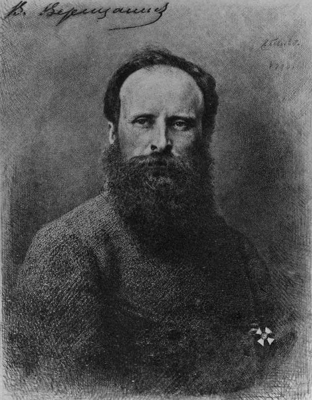 Vasily Vereshchagin